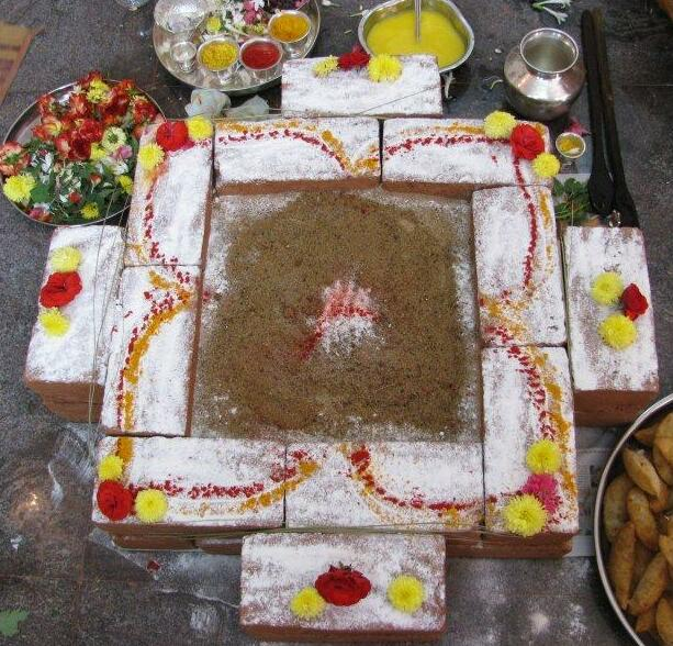 homa kundam